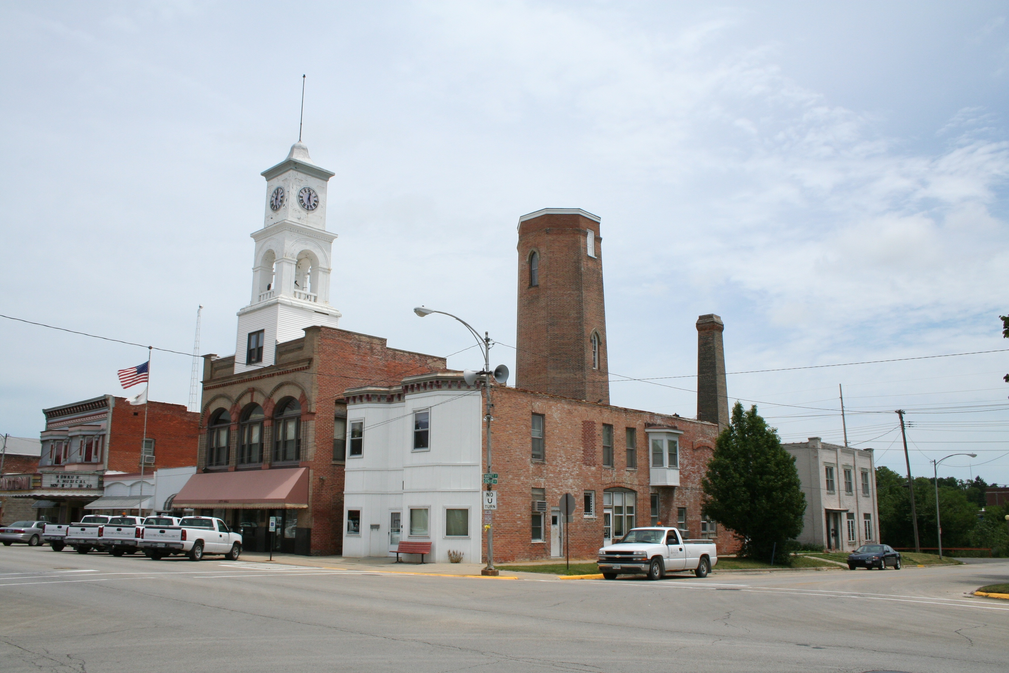 Paxton_Illinois_corner of Market_and_Center. City Hall with clock tower and historical water tower behind it. The Majestic Theatre on the far left was destroyed by fire on November 13, 2007, five months after this photo was taken.